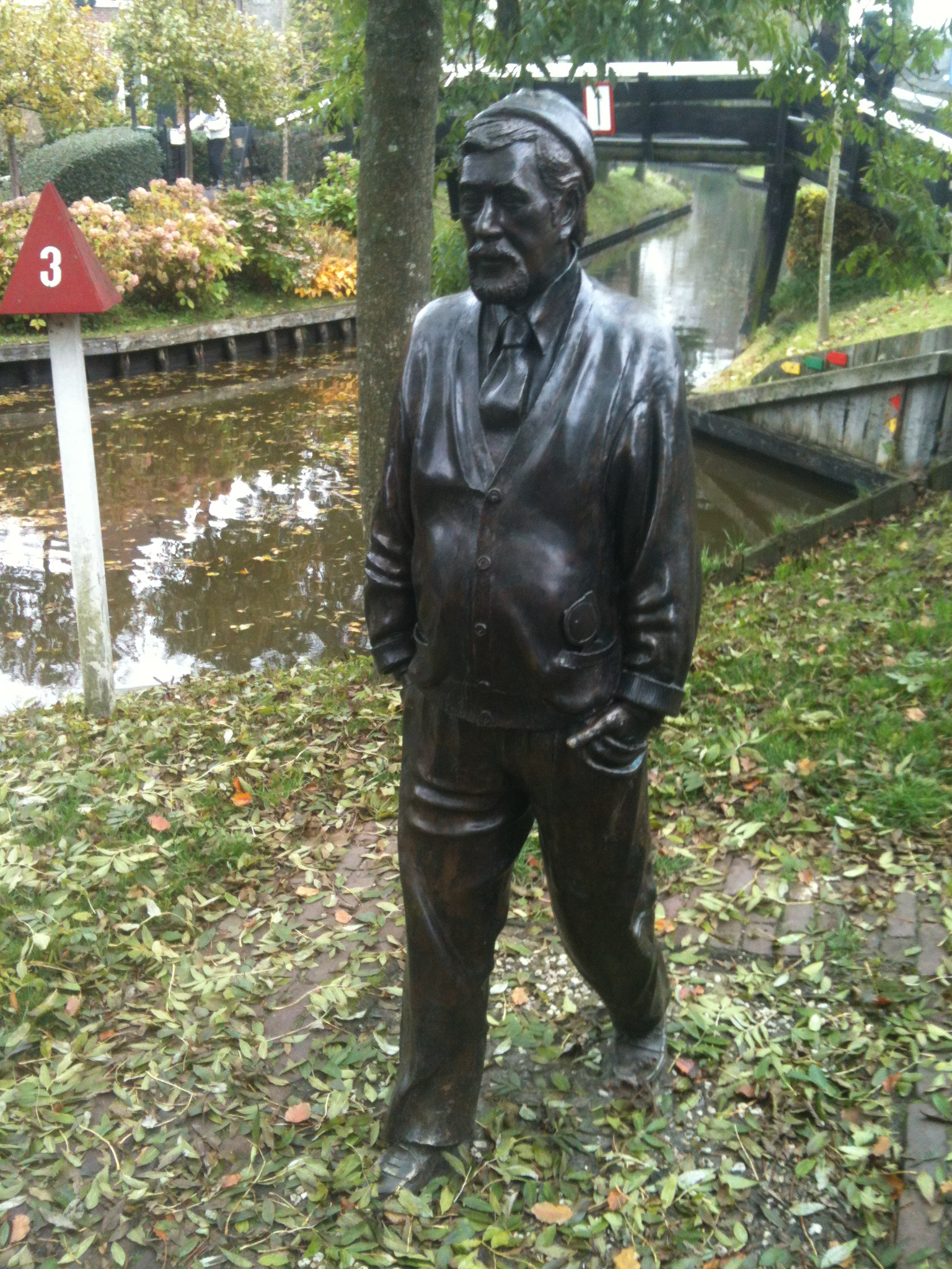 Statue of Dutch actor Albert Mol in the town of Giethoorn